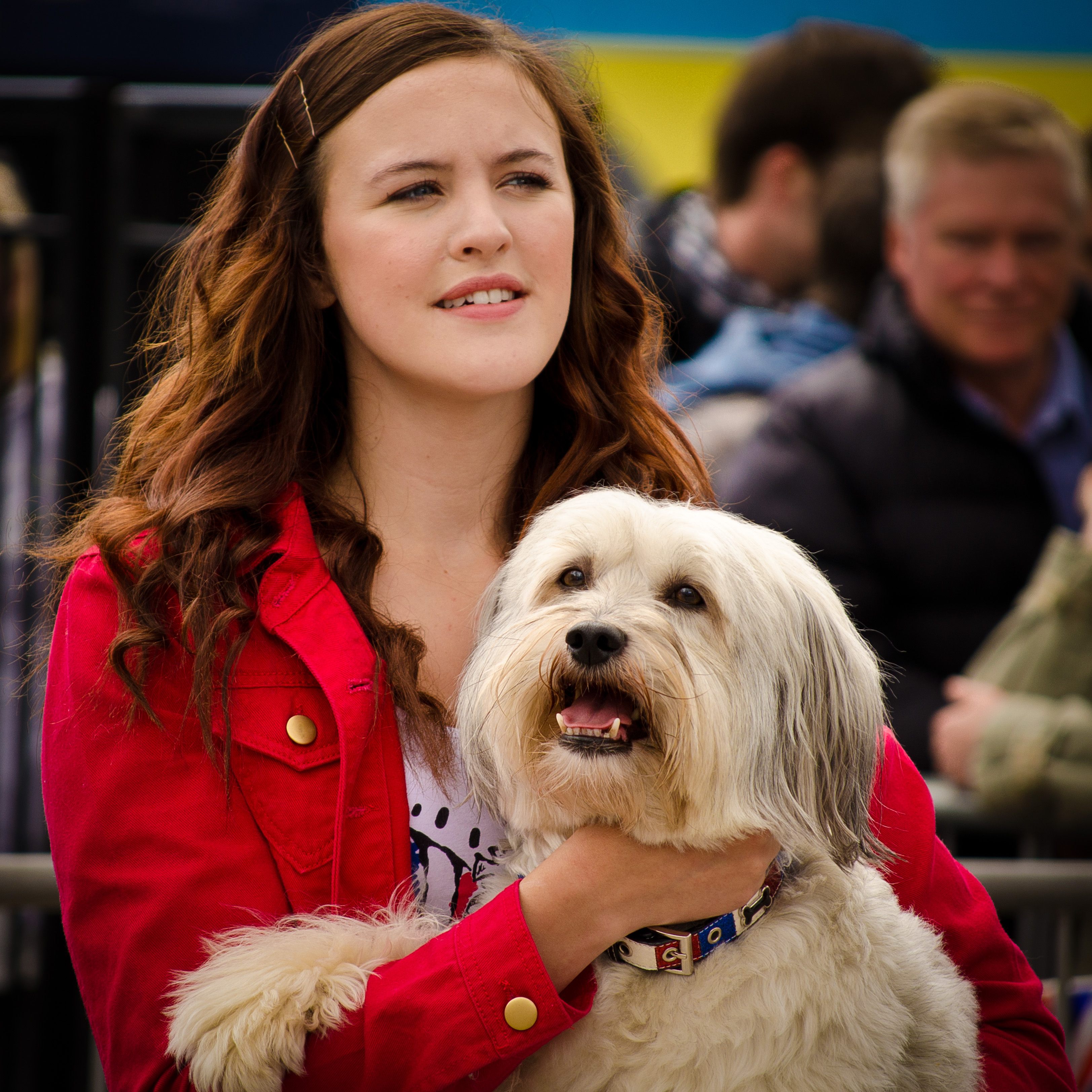 Ashleigh and Pudsey performing at Trafalgar Square as part of the Queen's Diamond Jubilee celebrations.